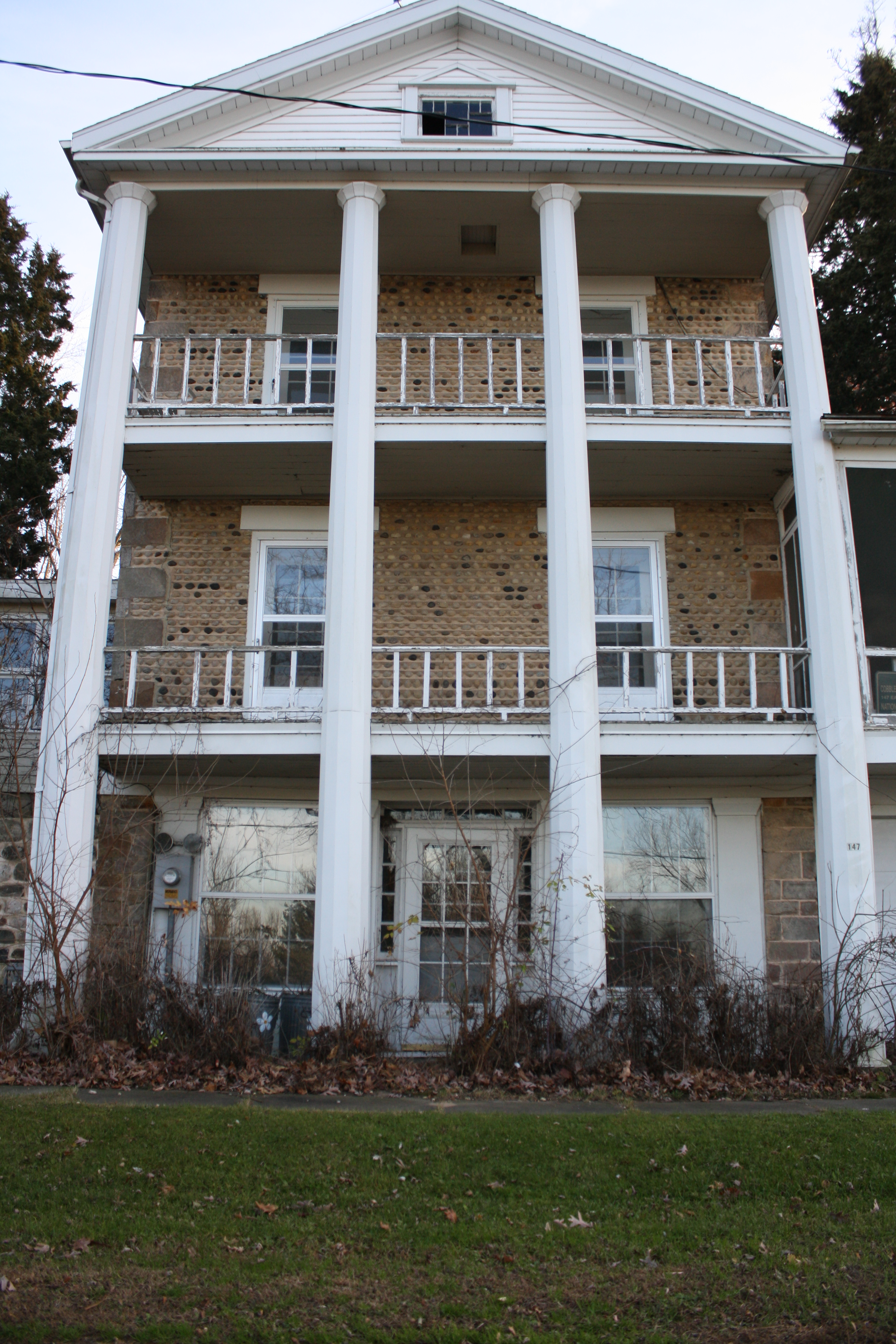 The Daniel and Caltherine Ketchum Cobblestone House in Marquette, Wisconsin, listed on the National Register of Historic Places.